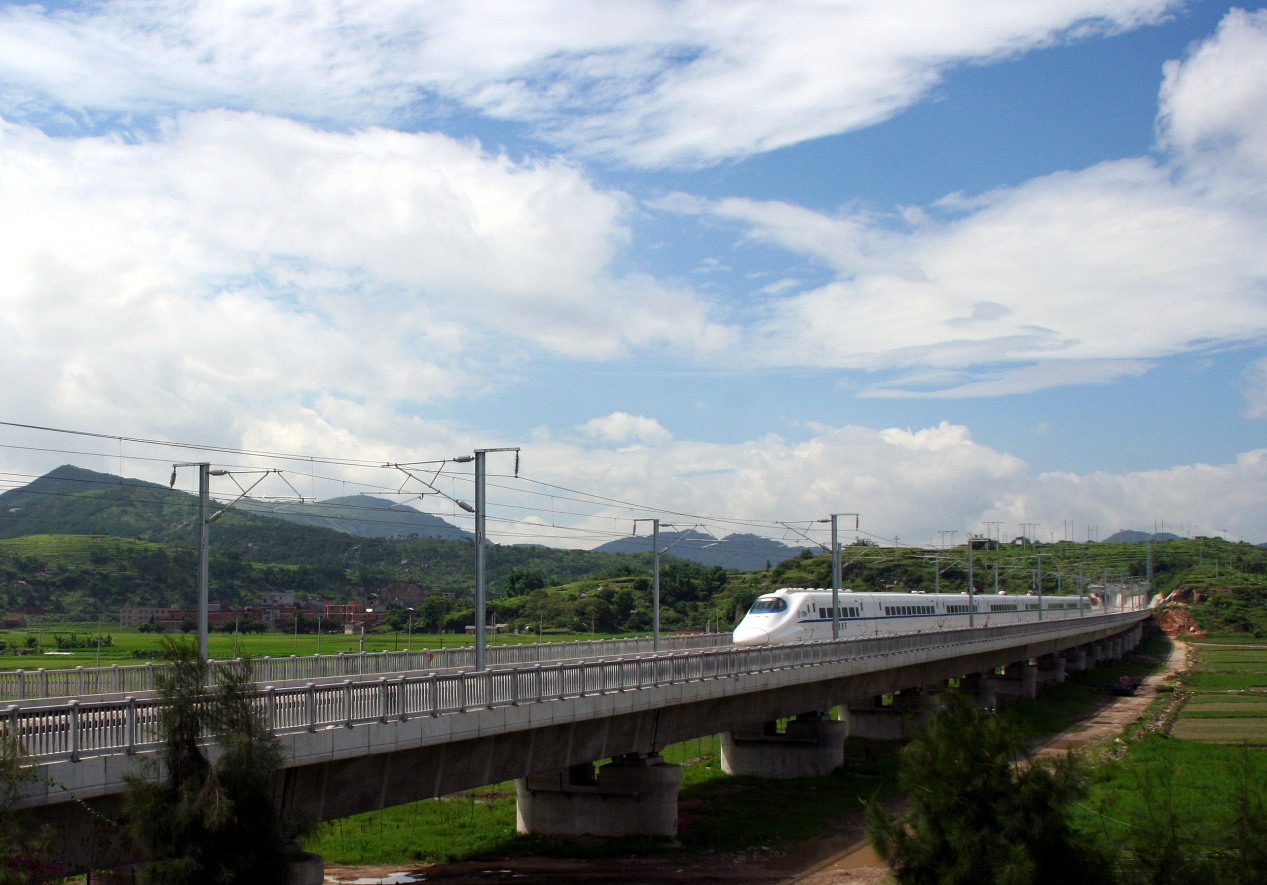 China Railways CRH Passing through Lianjiang county, Fujian province, China.